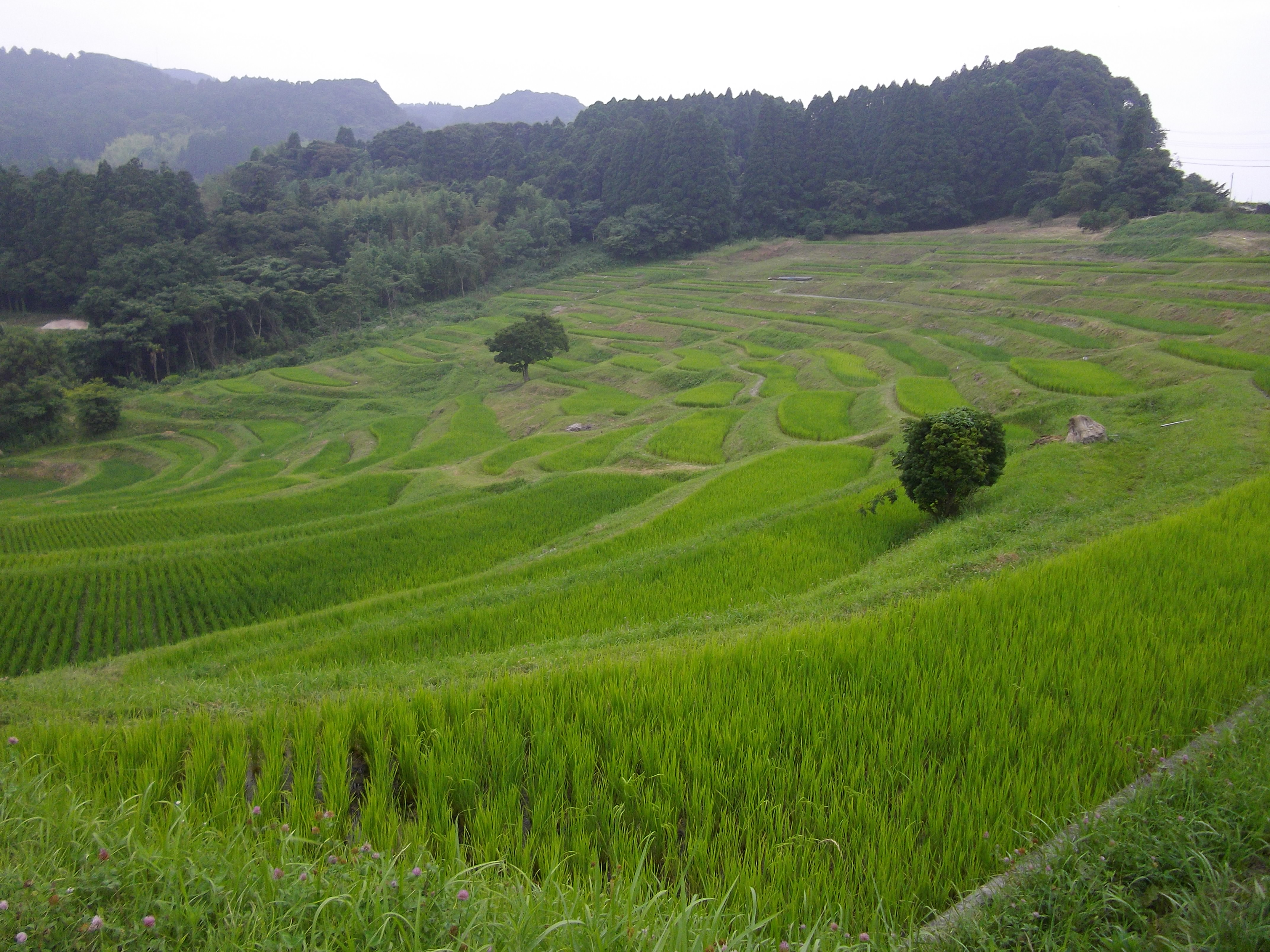 Oyama Senmaida in Summer in Kamogawa city, Chiba prefecture.